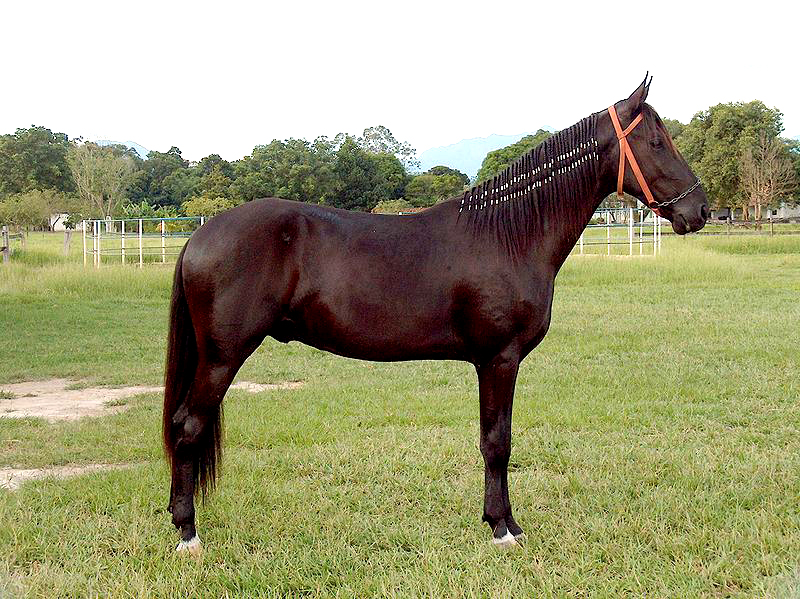 example of young Campolina Stallion that conforms to breed standard